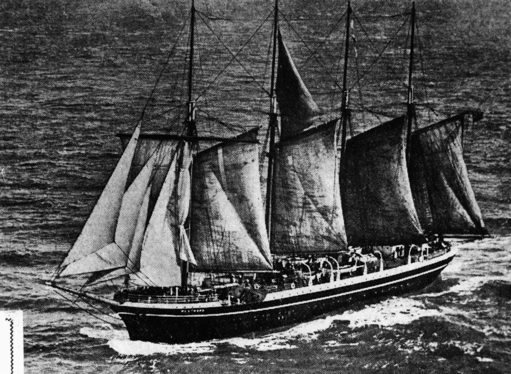 Westwood (ship)